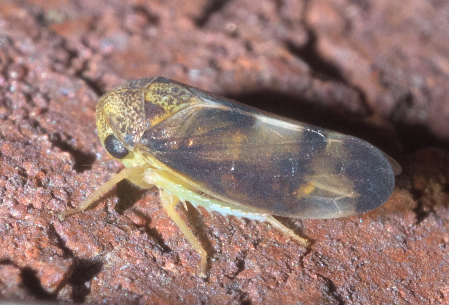 Pediopsoides distinctus, Family: Leafhoppers, Size: 3.9 mm, ID Confidence: 98